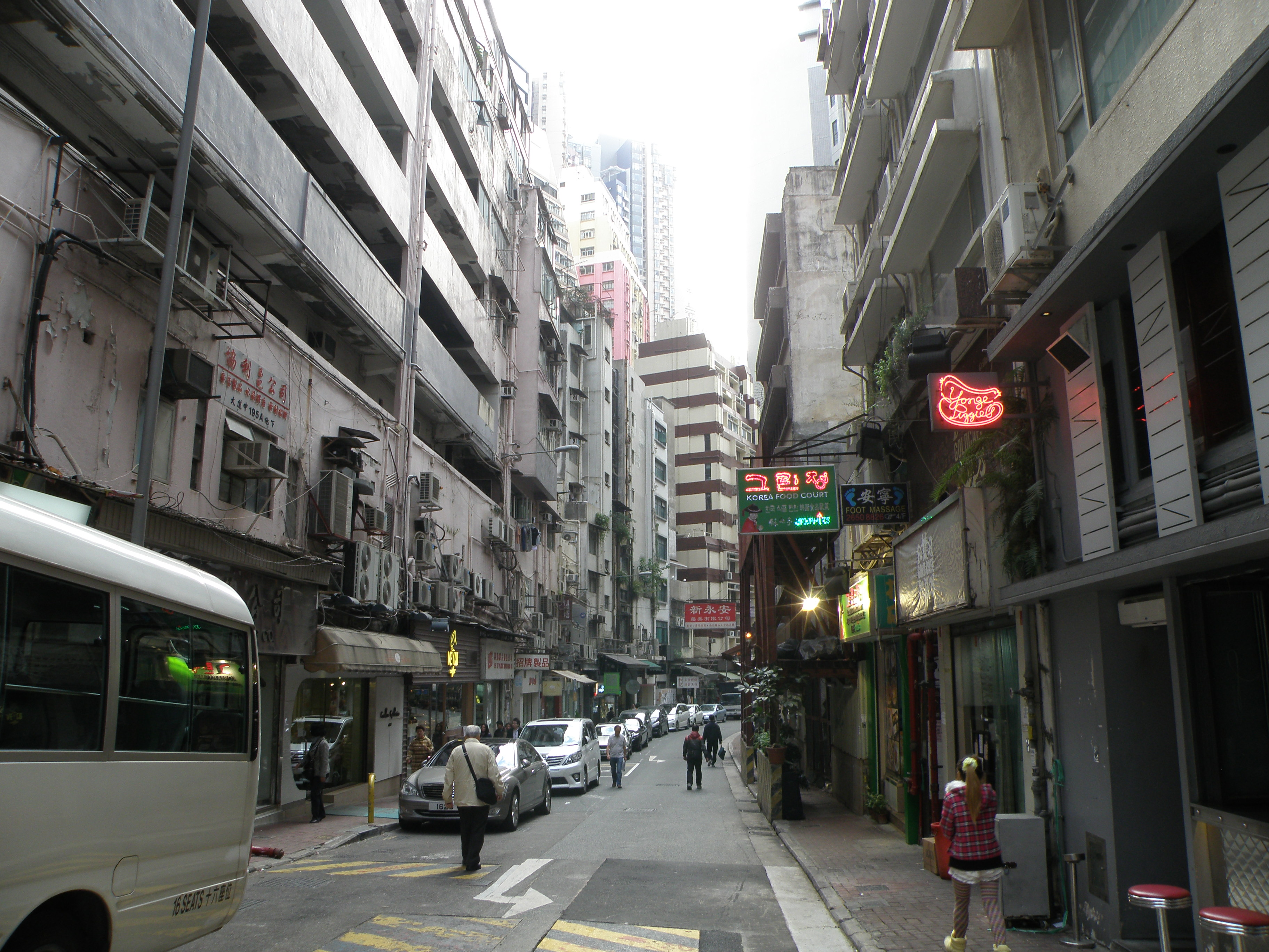 Jervois Street in Sheung Wan, Hong Kong.